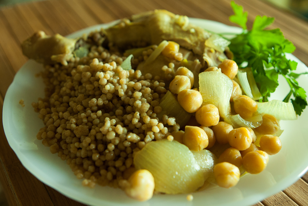 Palestinian couscous also known as maftoul with chicken and chickpeas. [OTRS pending]